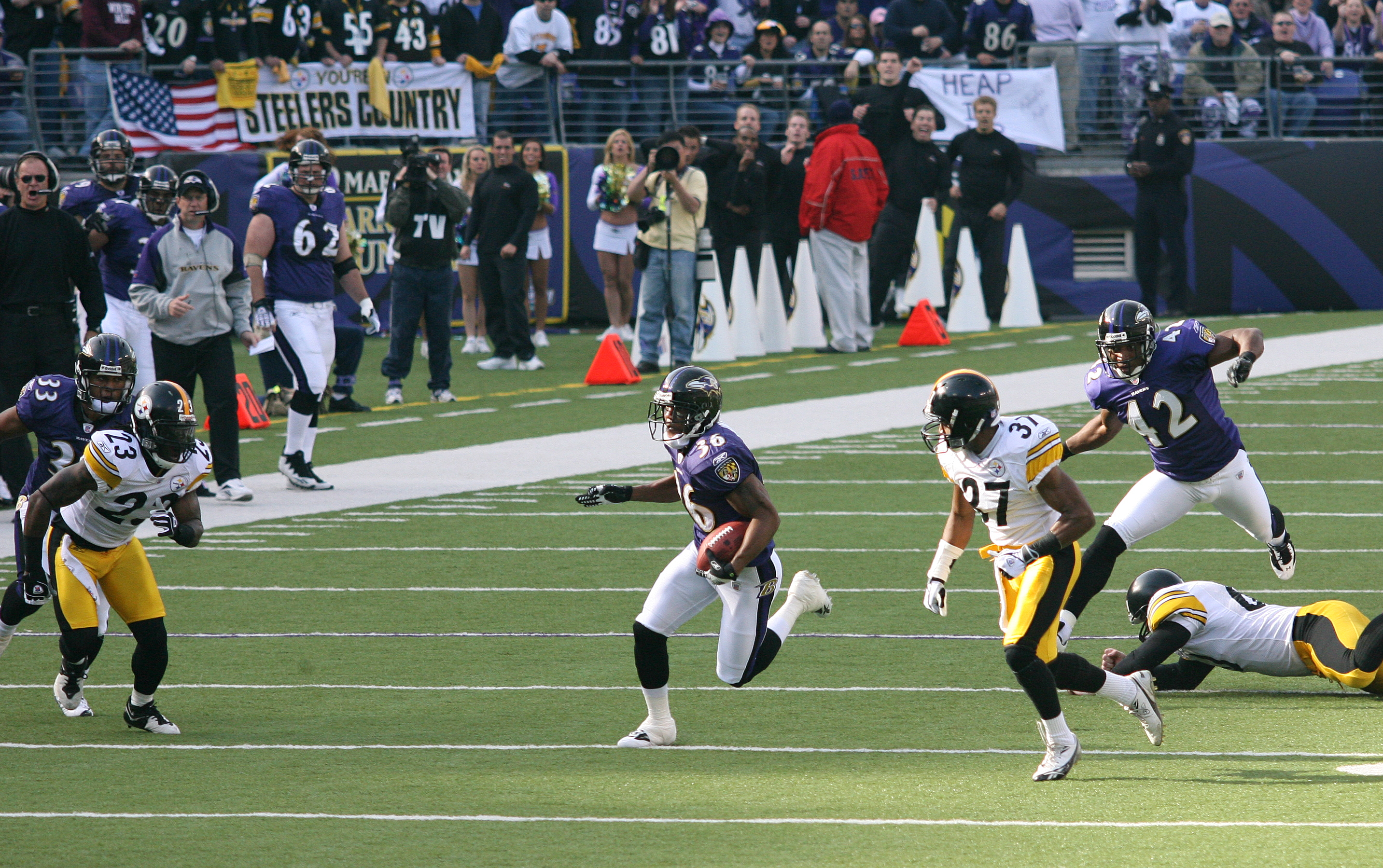 Tyrone Carter and Anthony Madison prepare to tackle a Raven runner. 2006-11-26